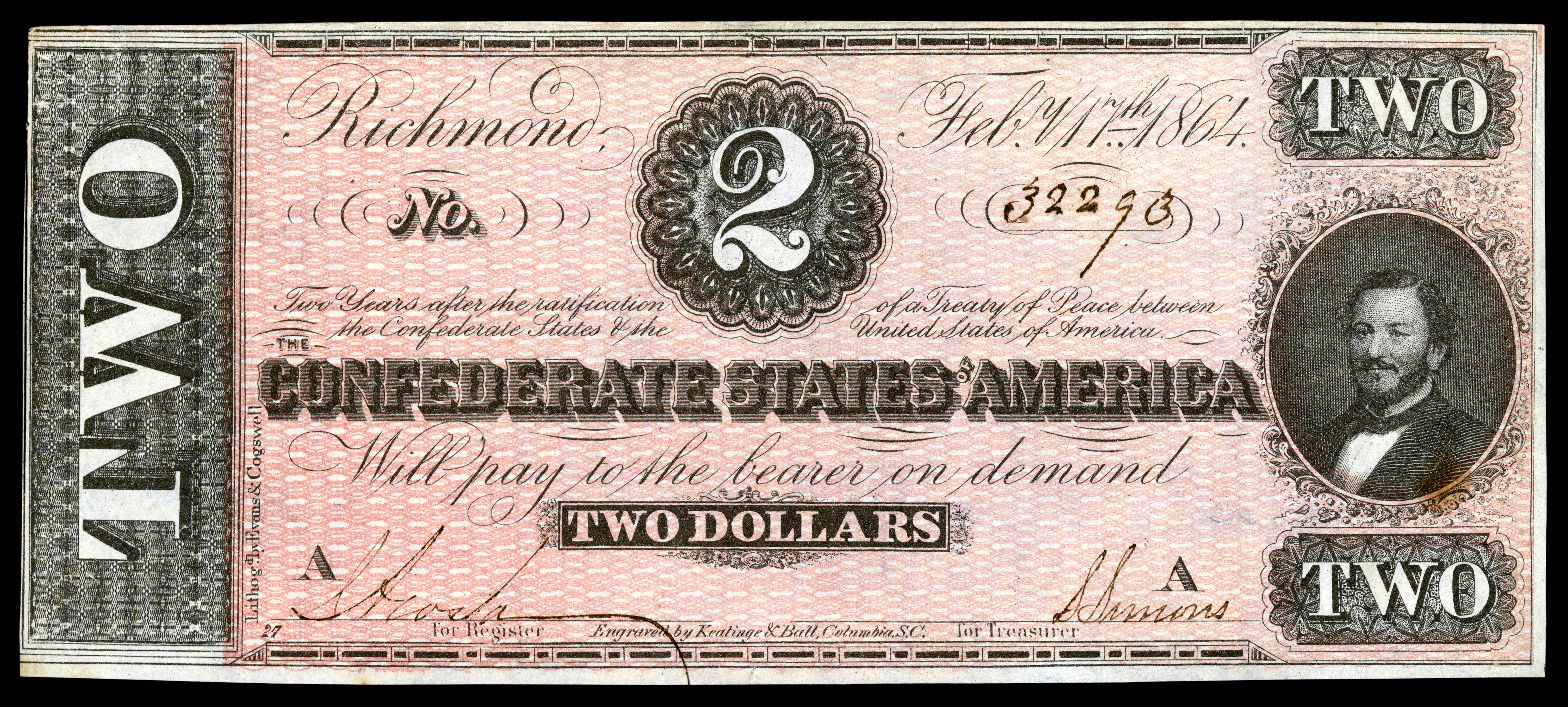 CSA-T70-$2-1864